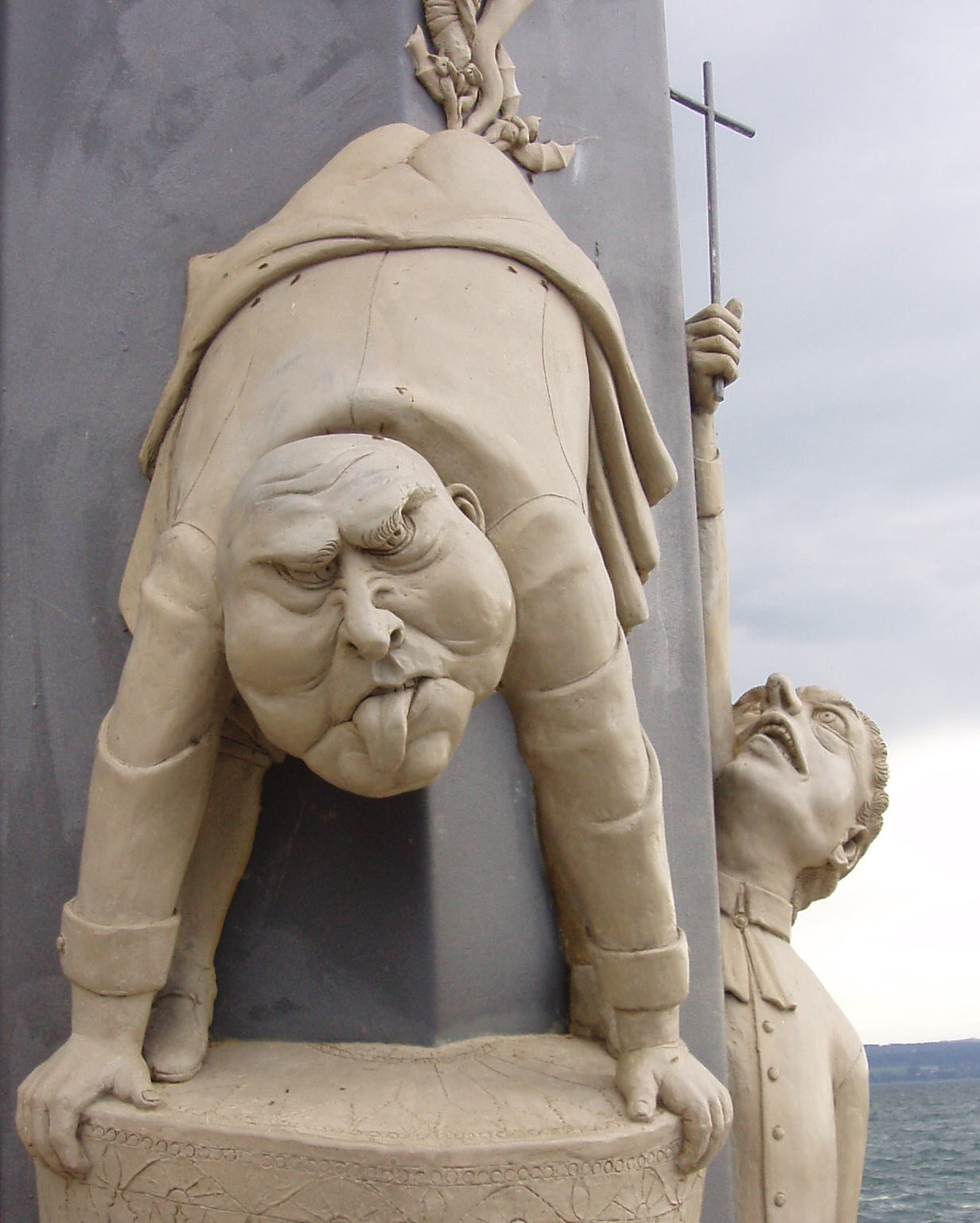 Johann Joseph Gaßner